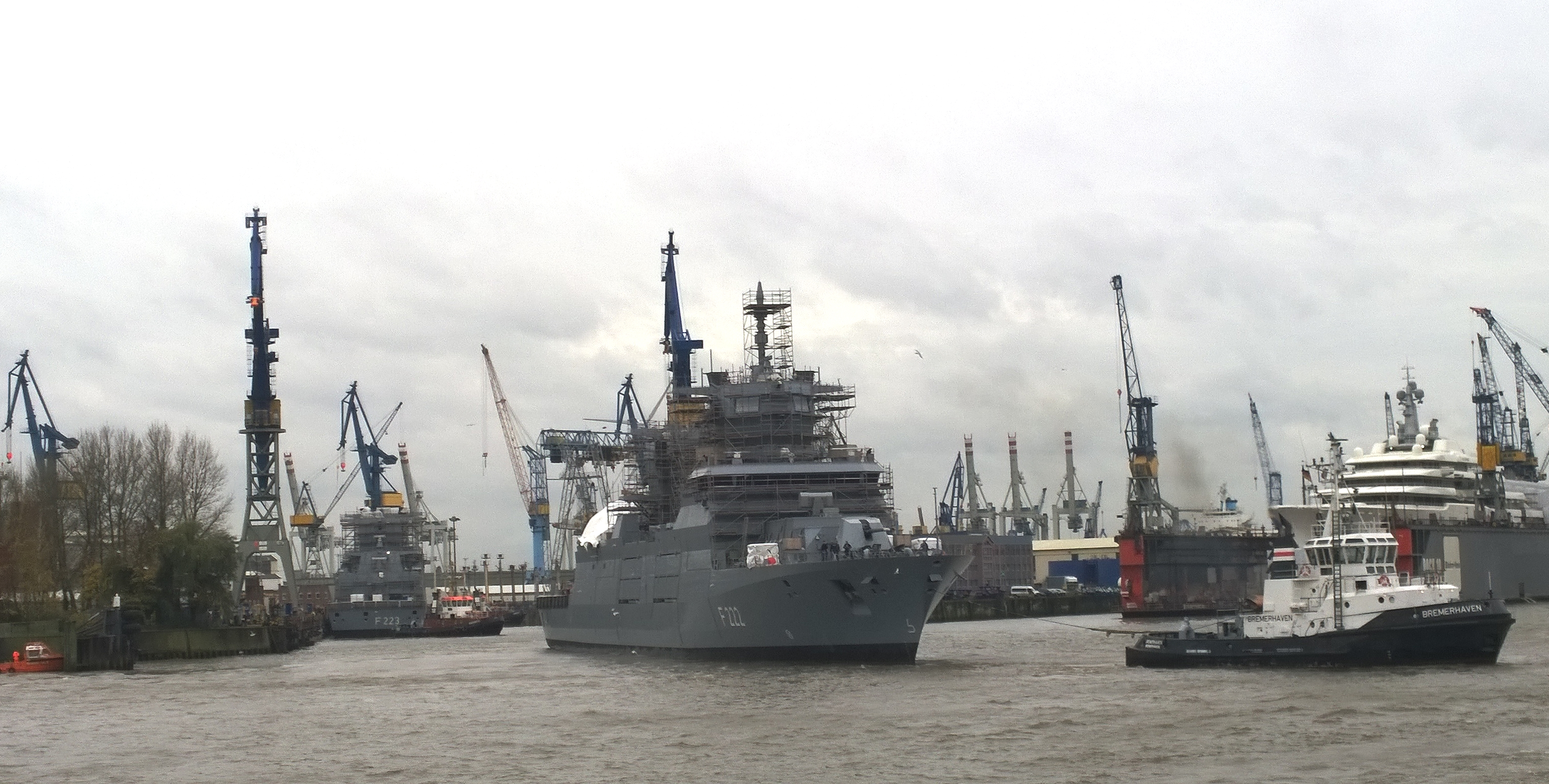 Carefully frigate Baden-Württemberg F222 is brought into the correct position